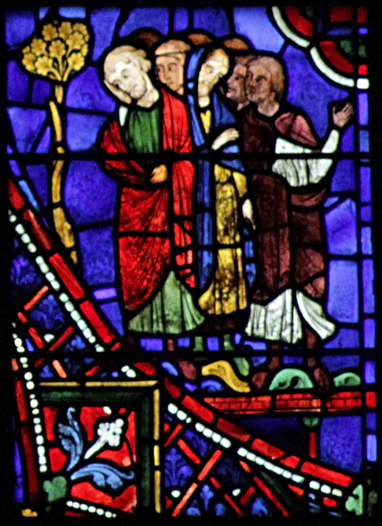 Fragment of File:Chartres 36 -Corrected.jpg - Life of St Apollinaris